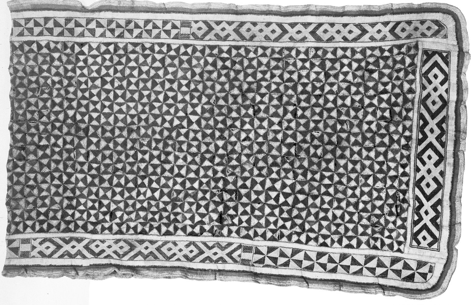 Textile